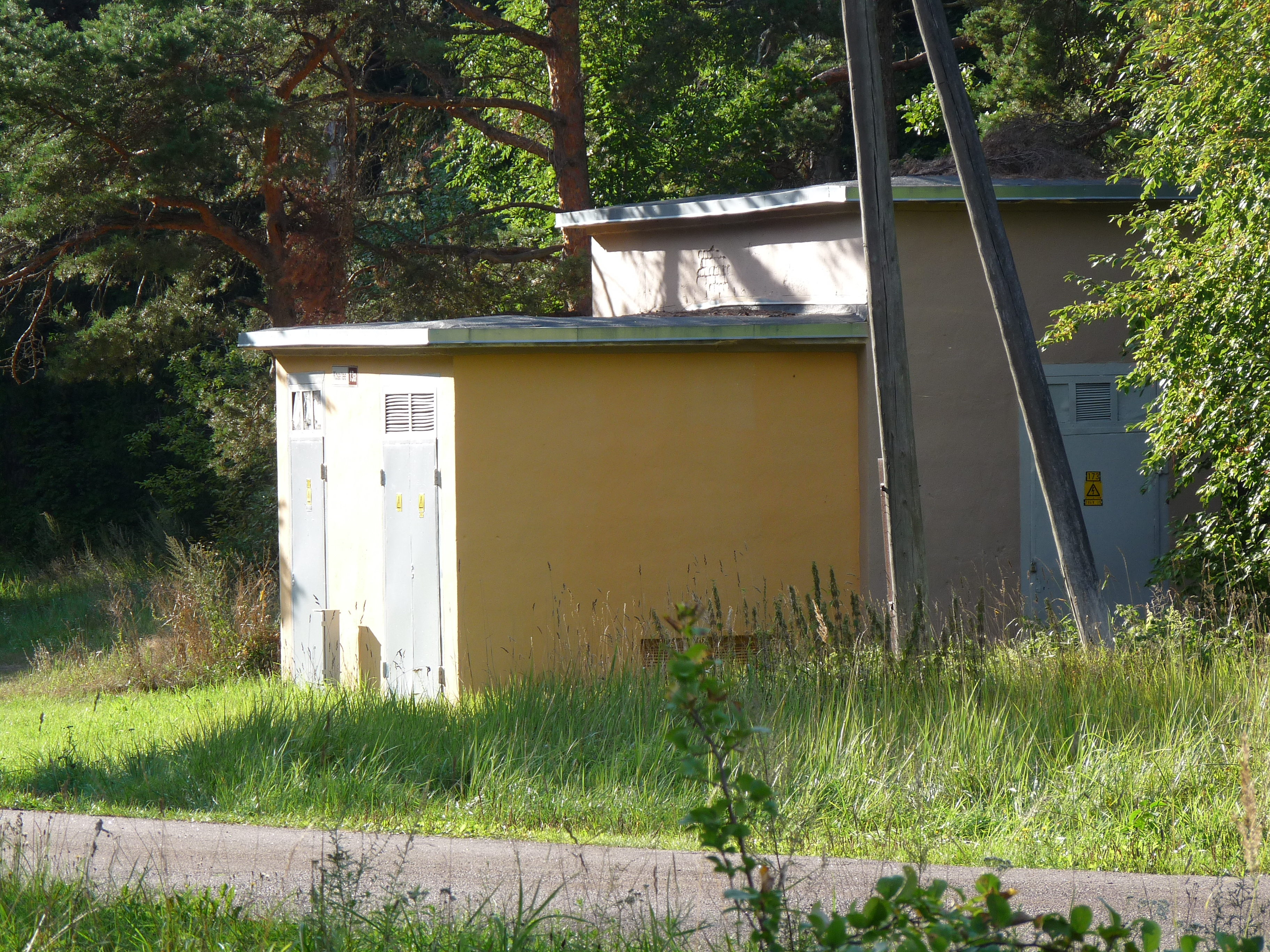 Distribution substation number 173.